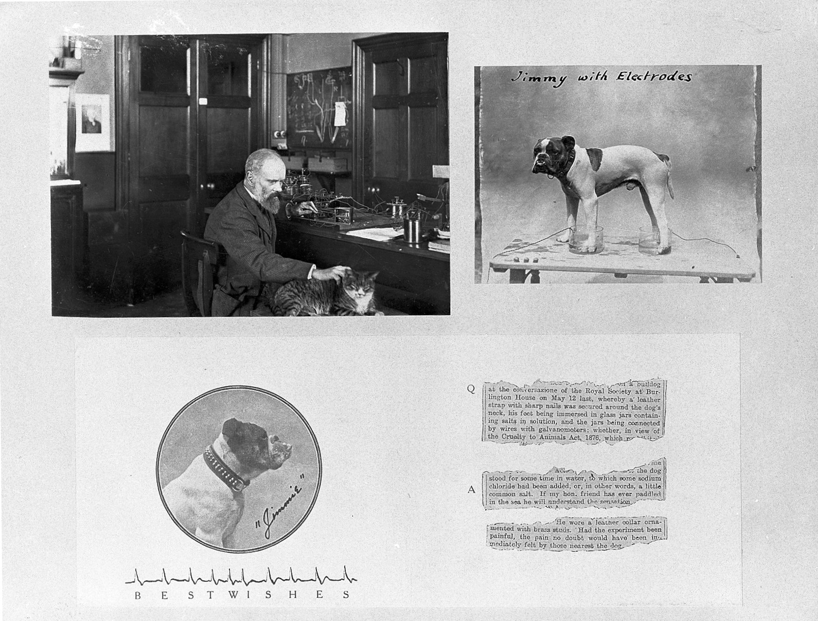 A.D. Waller in his laboratory with apparatus and cat. Photograph of his dog "Jimmy" with electrodes. Source of print unknown, perhaps from St. Mary's Hospital, London, W.2. Wellcome Images Keywords: Augustus Desire Waller